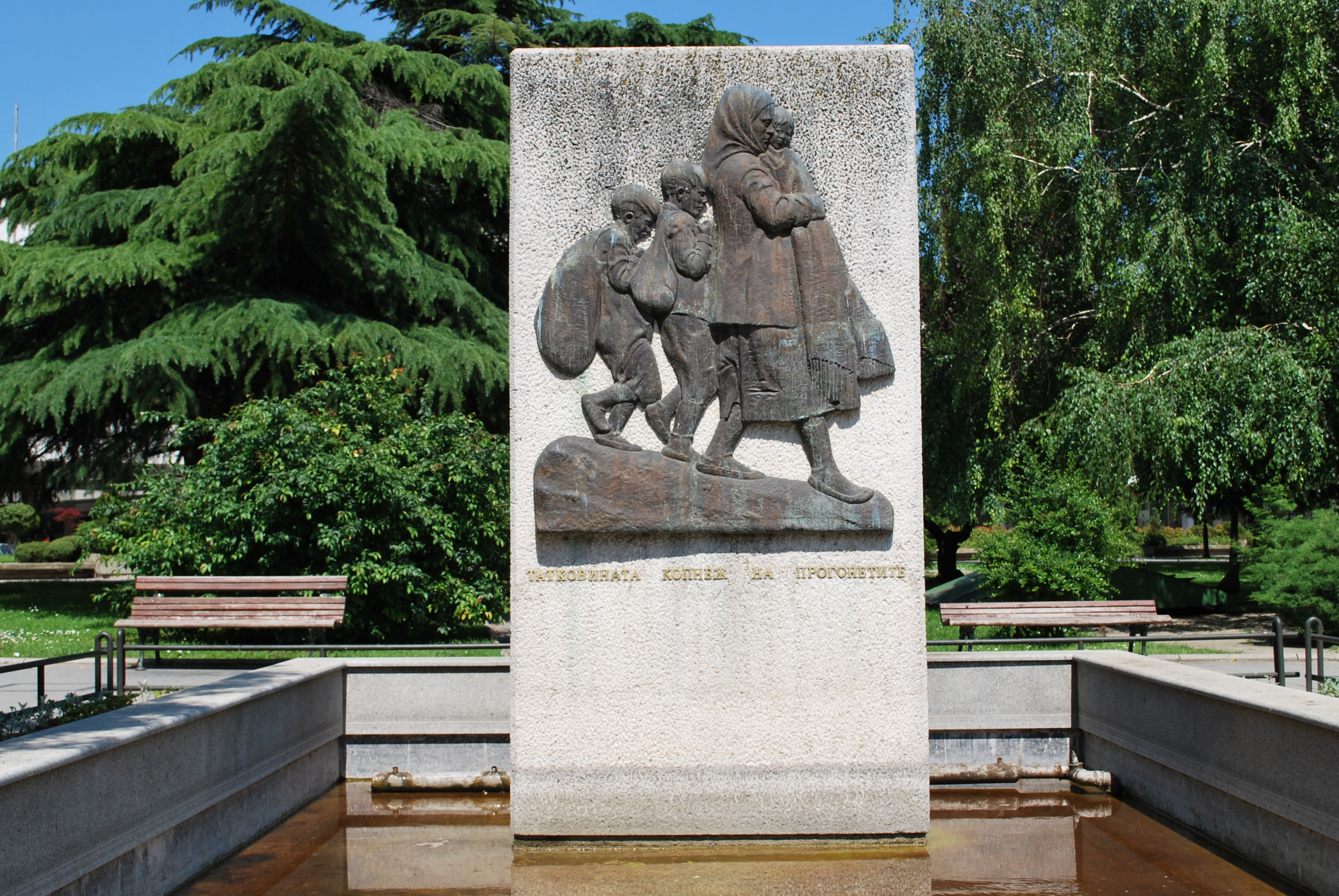 Monument of the refugee children in Skopje, Macedonia